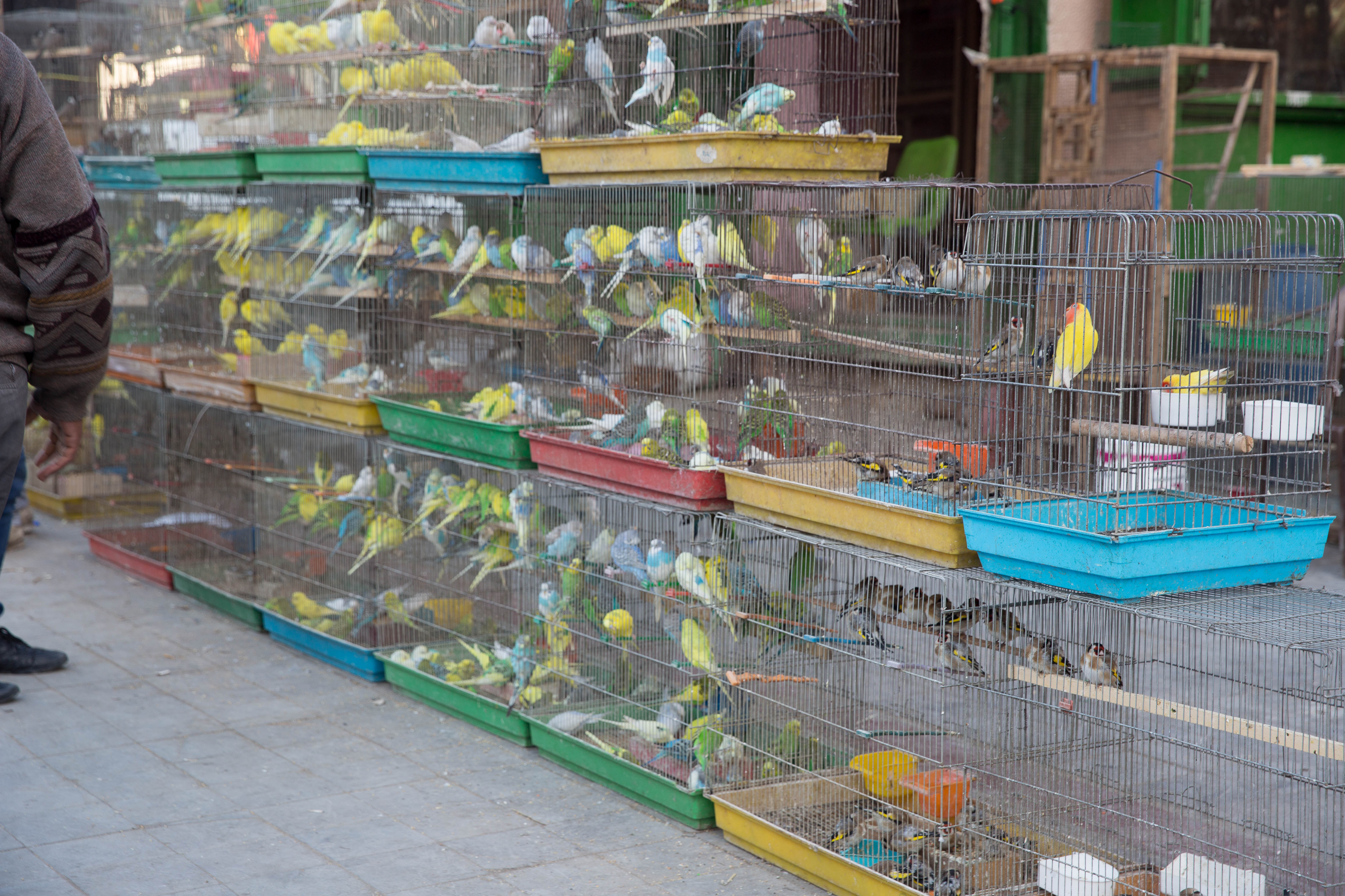 Birds at Souk Al Ghazil Baghdad -2016